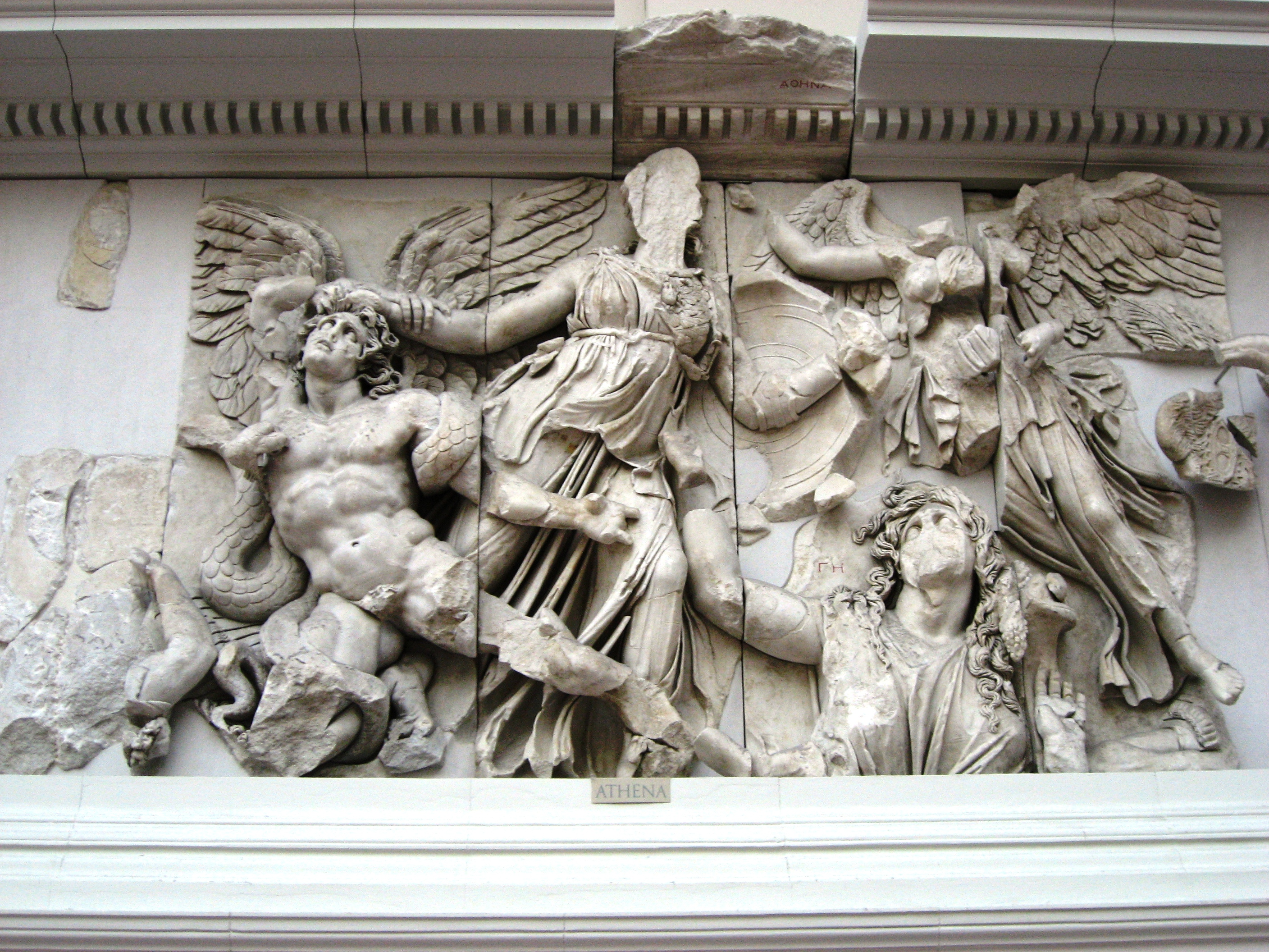 part of the Gigantomachy frieze of the Pergamon Altar. Gaia pleads with Athena to spare her sons.